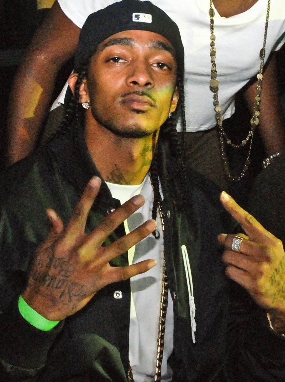 Nipsey Hussle on March 11, gesturing Rollin' 60s hand sign.